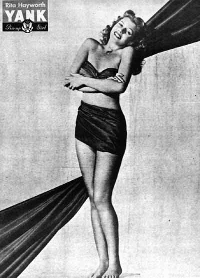 Pin-up photo of Rita Hayworth for the Jul. 7, 1944 issue of Yank, the Army Weekly, a weekly U.S. Army magazine fully staffed by enlisted men.